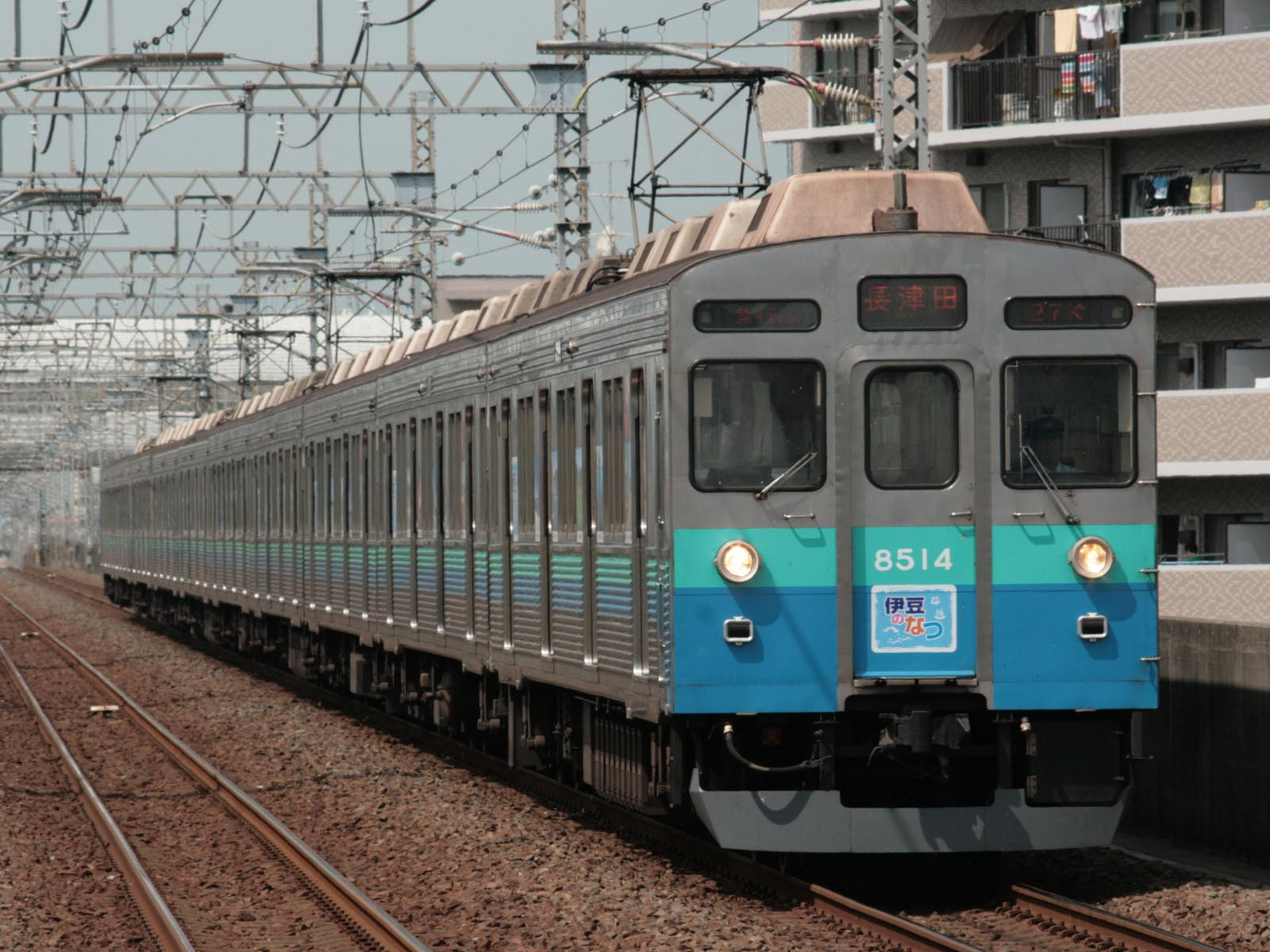 Tokyu Corporation's 8500 Series "Izu no Natsu Go", Izu Kyuko colour version, on Den-en-toshi Line photographed at Matsubara-danchi Station on Tobu Isesaki Line